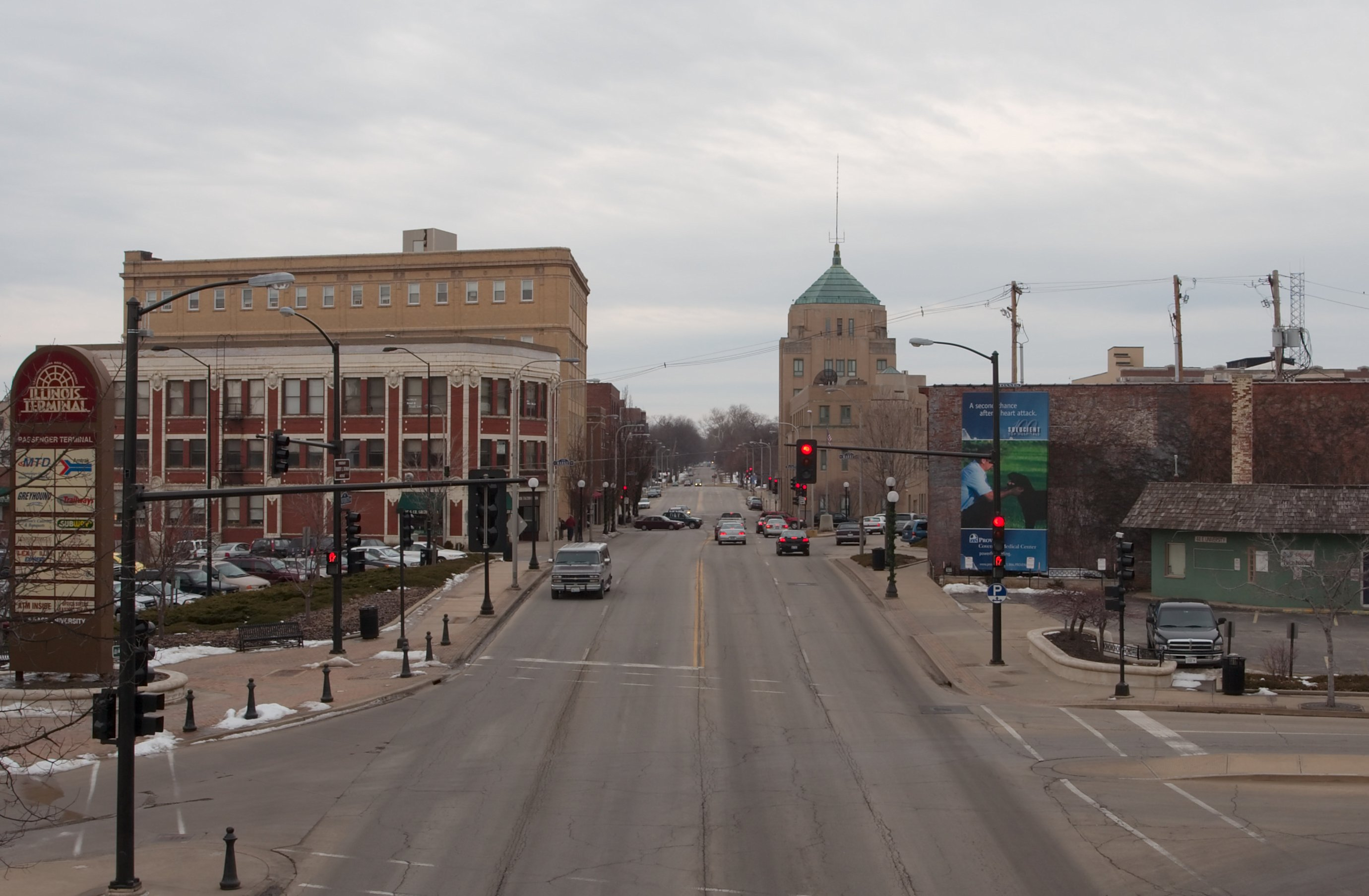 Looking west on University Avenue, Champaign, IL